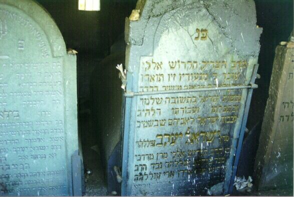 Tomb of Rabbi Israel Yaakov Leifer in Bushtina, Zakarpatia